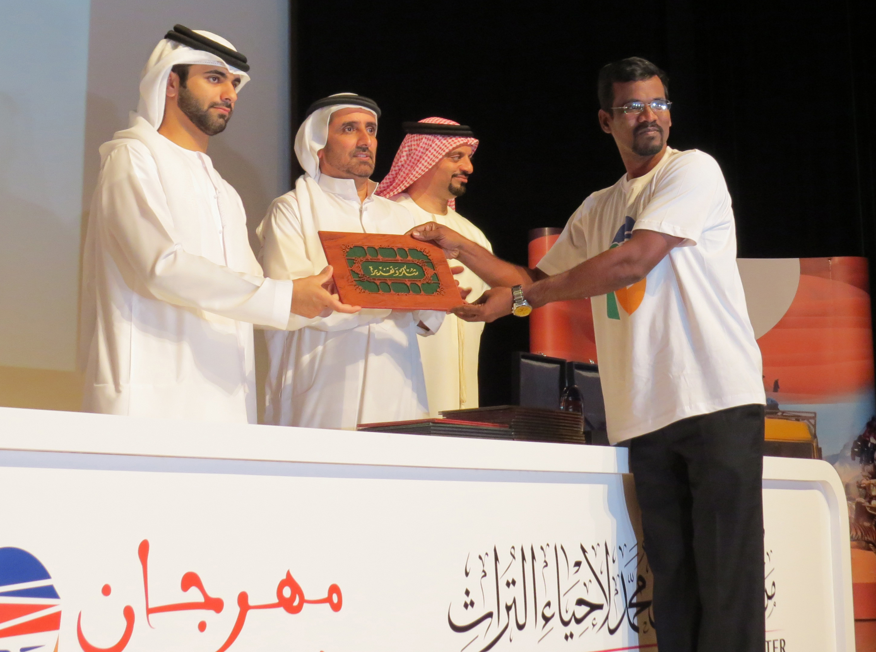 Bharadwaj Dayala being felicitated by the Prince of Dubai, Sheik Mansoor bin Mohammed bin Rashid Al Makhtom in Dubai